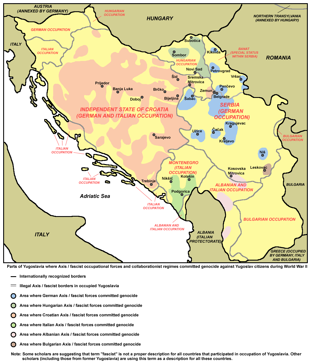 Parts of Yugoslavia where Axis / fascist occupational forces and collaborationist regimes committed genocide against Yugoslav citizens during World War II.